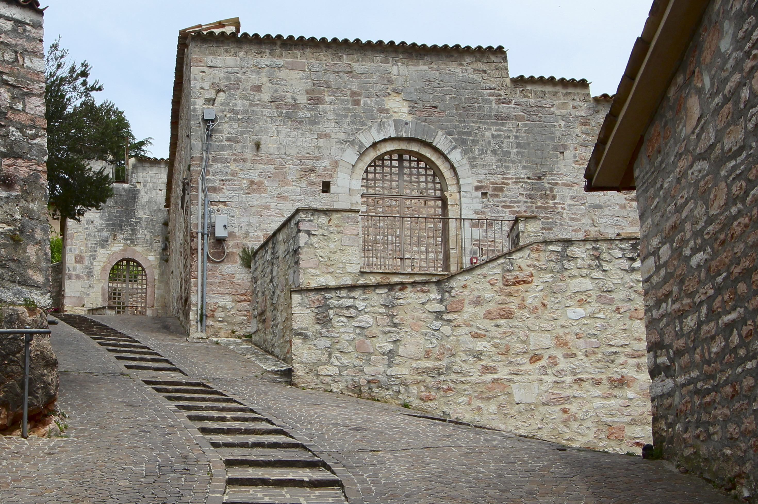 Church ruin San Nicola, Cerreto di Spoleto, Umbria, Italy